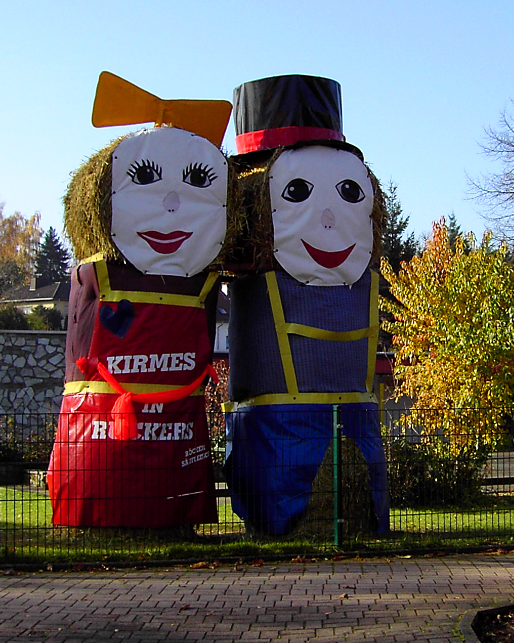 "Kirmes" in the village of rueckers, germany